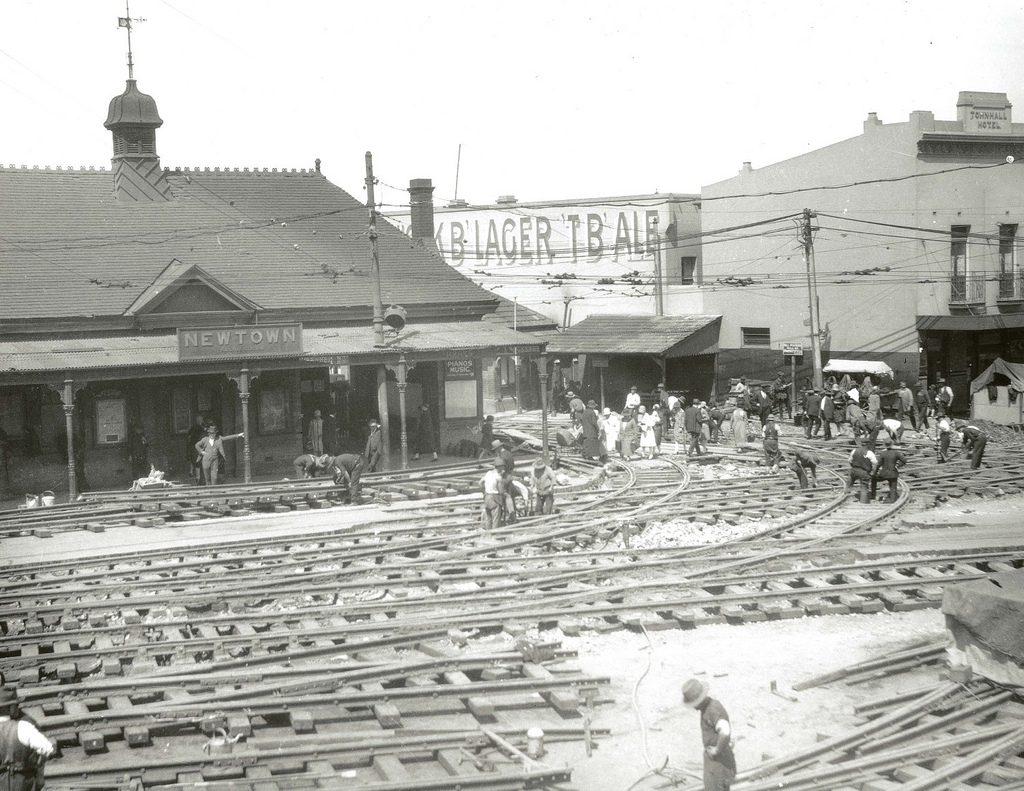 Relaying tracks near Newtown Station 1927 Dated: c. 01/01/1894